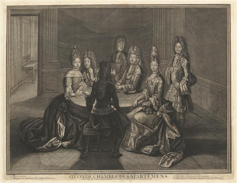 Sat L-R; Dowager Princess of Conti, The Dauphin, the Duke of Bourbon, Madame la Duchesse and the Maréchal-duc de Vendôme, Versailles 1694